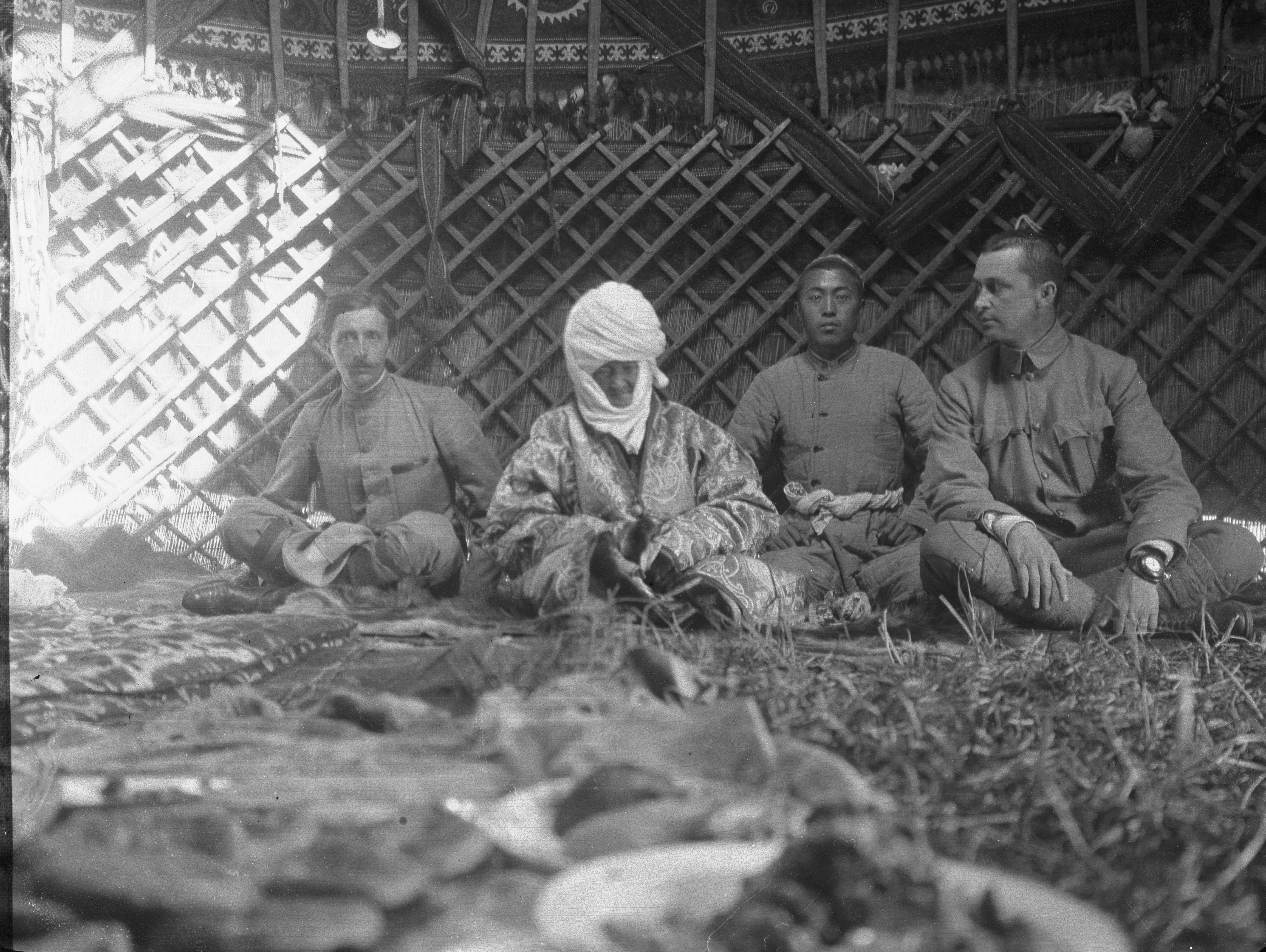 Photograph of Kurmanjan Datka sitting, with her grandson and C. G. E. Mannerheim to the right.